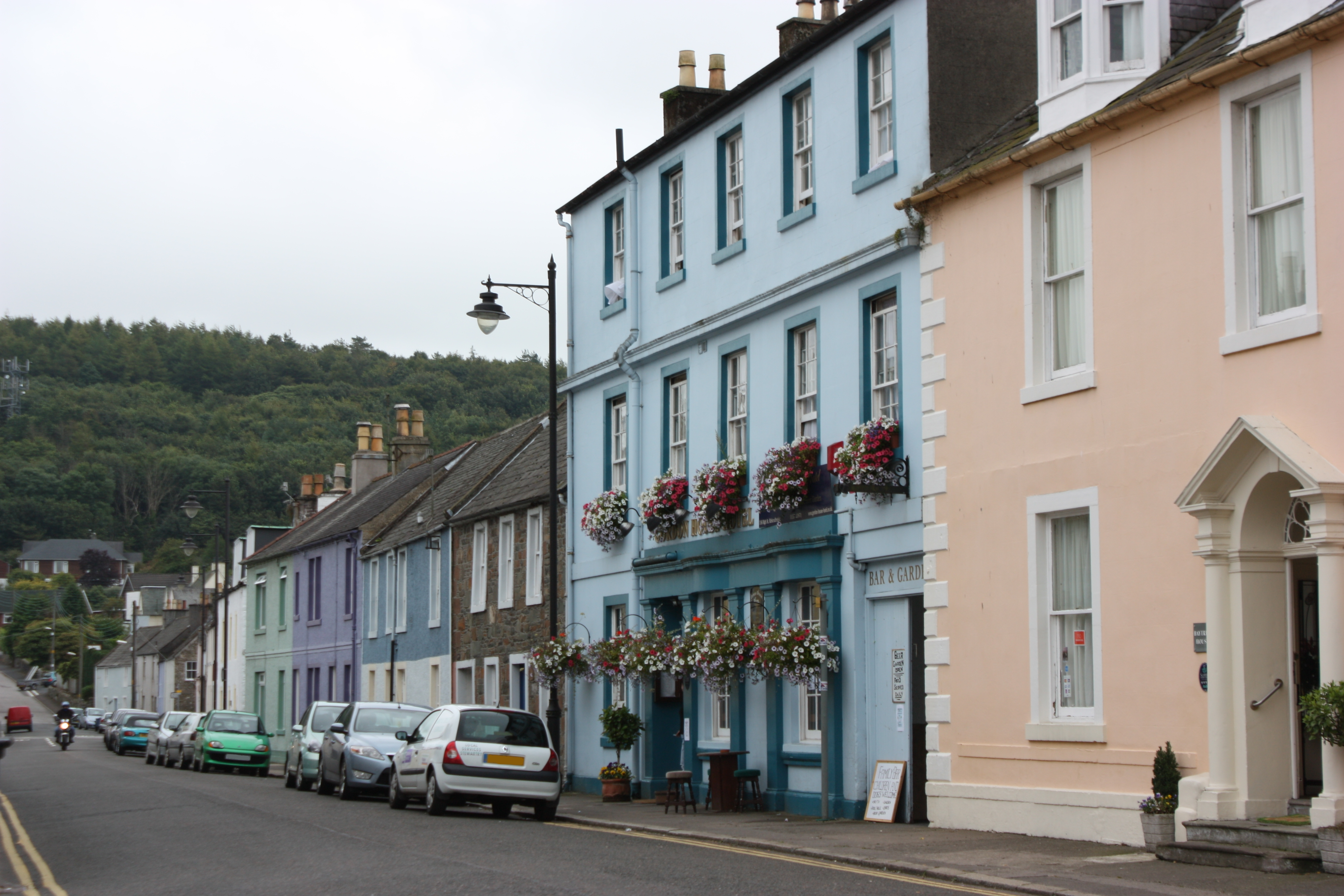 Kirkcudbright in Dumfries and Galloway, Scotland, UK.